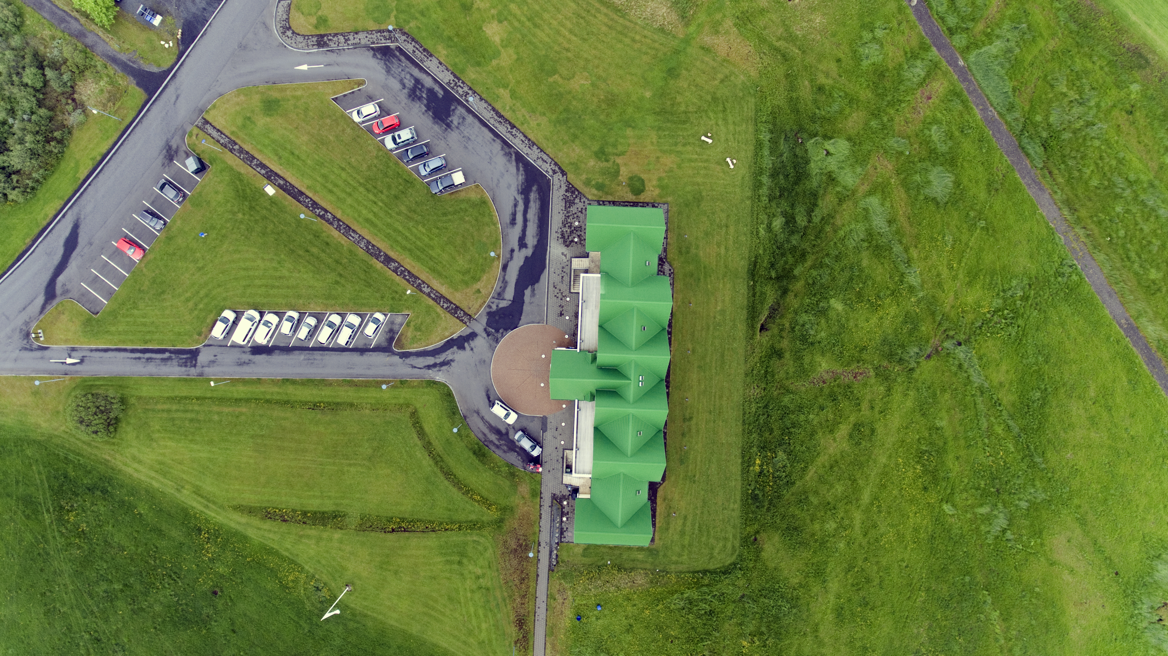 Héraðsskólinn Schoolhouse top-down view from the sky